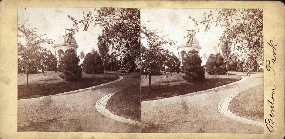 Benton Park. VM90-000211. Stereograph photograph by Boehl and Koenig, ca. 1875 . Missouri Historical Society Photographs and Prints Collections. NS 35037. Scan © 2007, Missouri Historical Society. {"subject_uri":"http:\/\/collections.mohistory.org\/resource\/22630","local_id":"38858" }